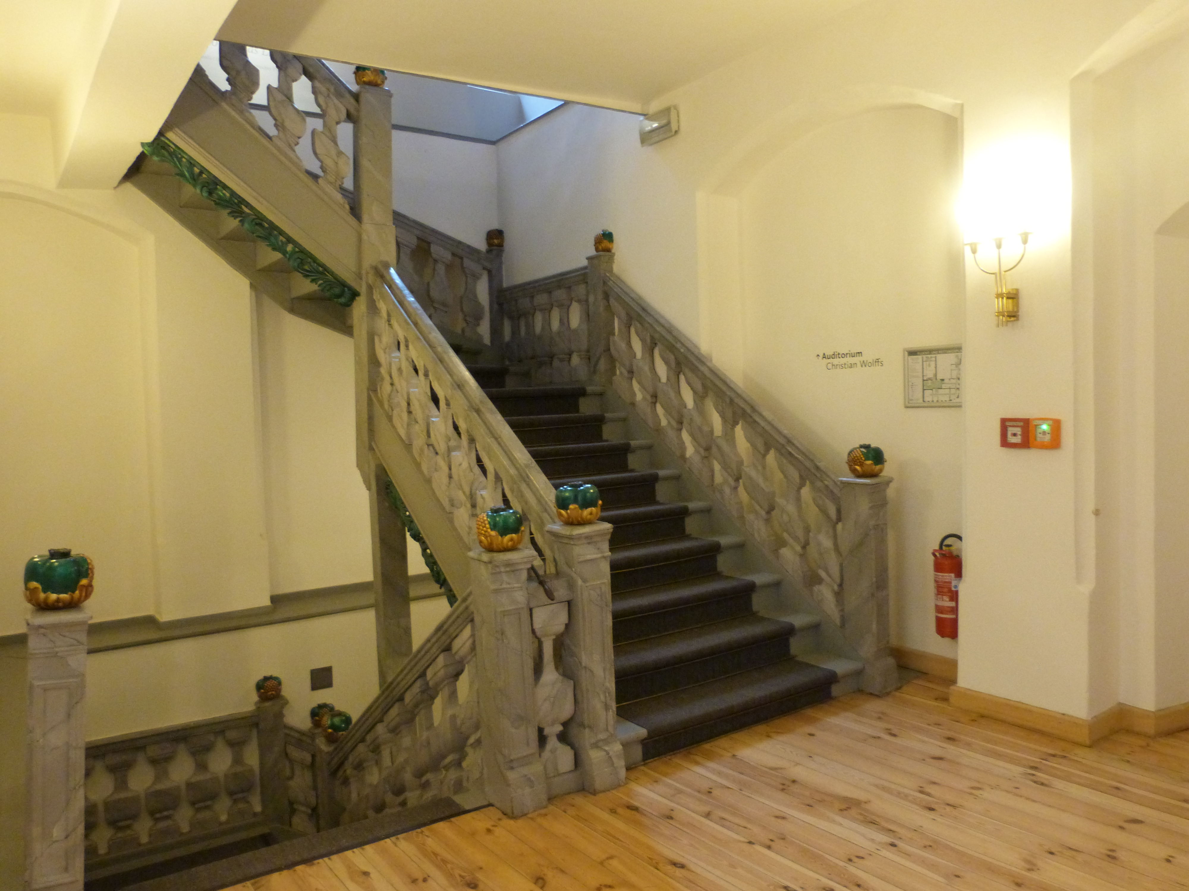 Interior of the city museum Christian-Wolff-Haus, Halle (Saale)